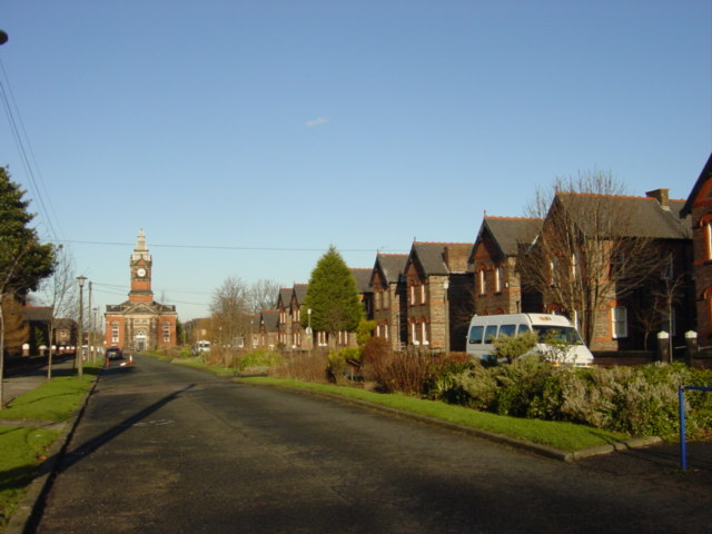 Fazakerley Cottage Homes, Longmoor Lane. Fazakerley Cottage Homes for the accommodation of pauper children were erected by the West Derby Union at Longmoor Lane, Fazakerley in 1888-9 to designs by CH Lancaster. Twenty five children were housed in each cottage supervised by a house-father and house-mother. To the left of the photo can be seen the central hall, the site also had schools, swimming baths, an infirmary and workshops.